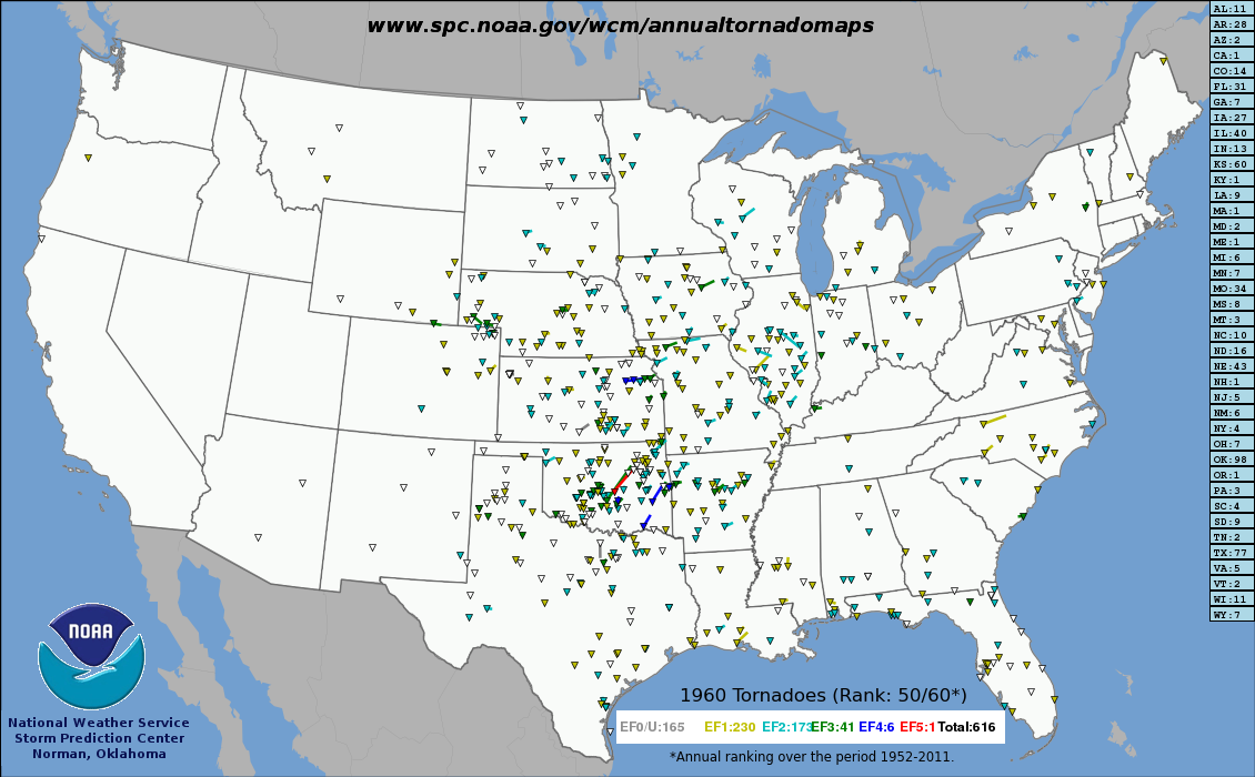 Tracks of every US tornado in 1960.